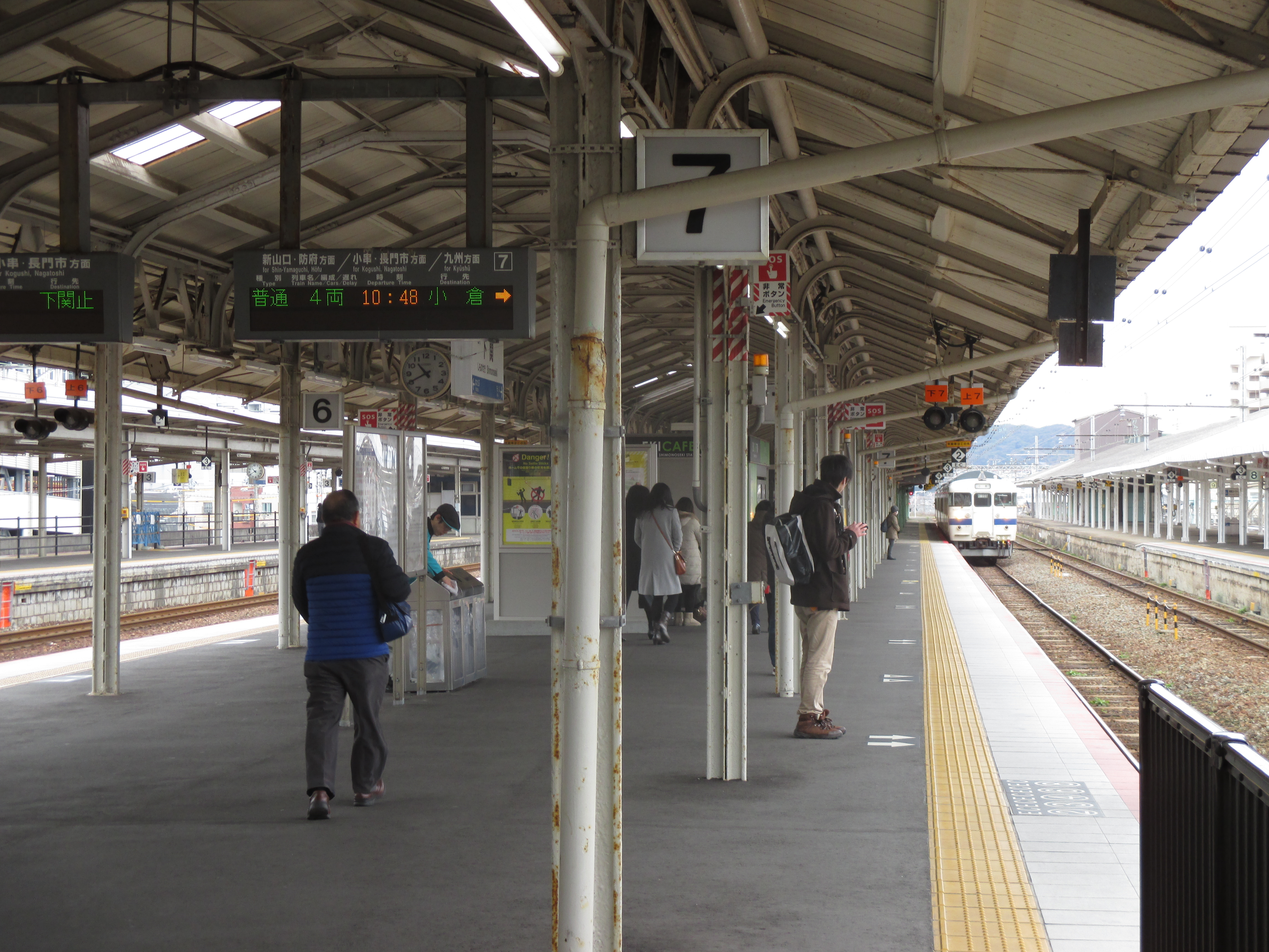 Shimonoseki station platform